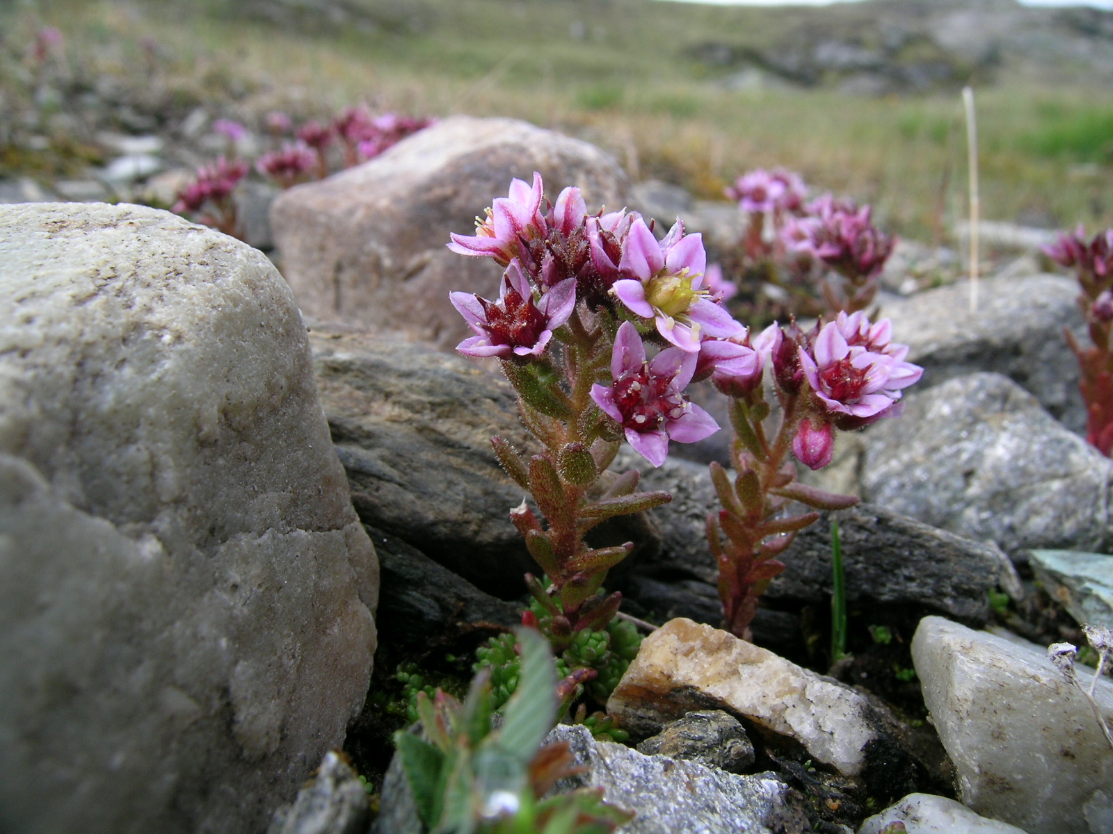 Sedum villosum Zermatt, Riffelberg (Kanton Wallis, Switzerland), 2500 m Author: Roland Teuscher – own photograph Date: 4.08.06